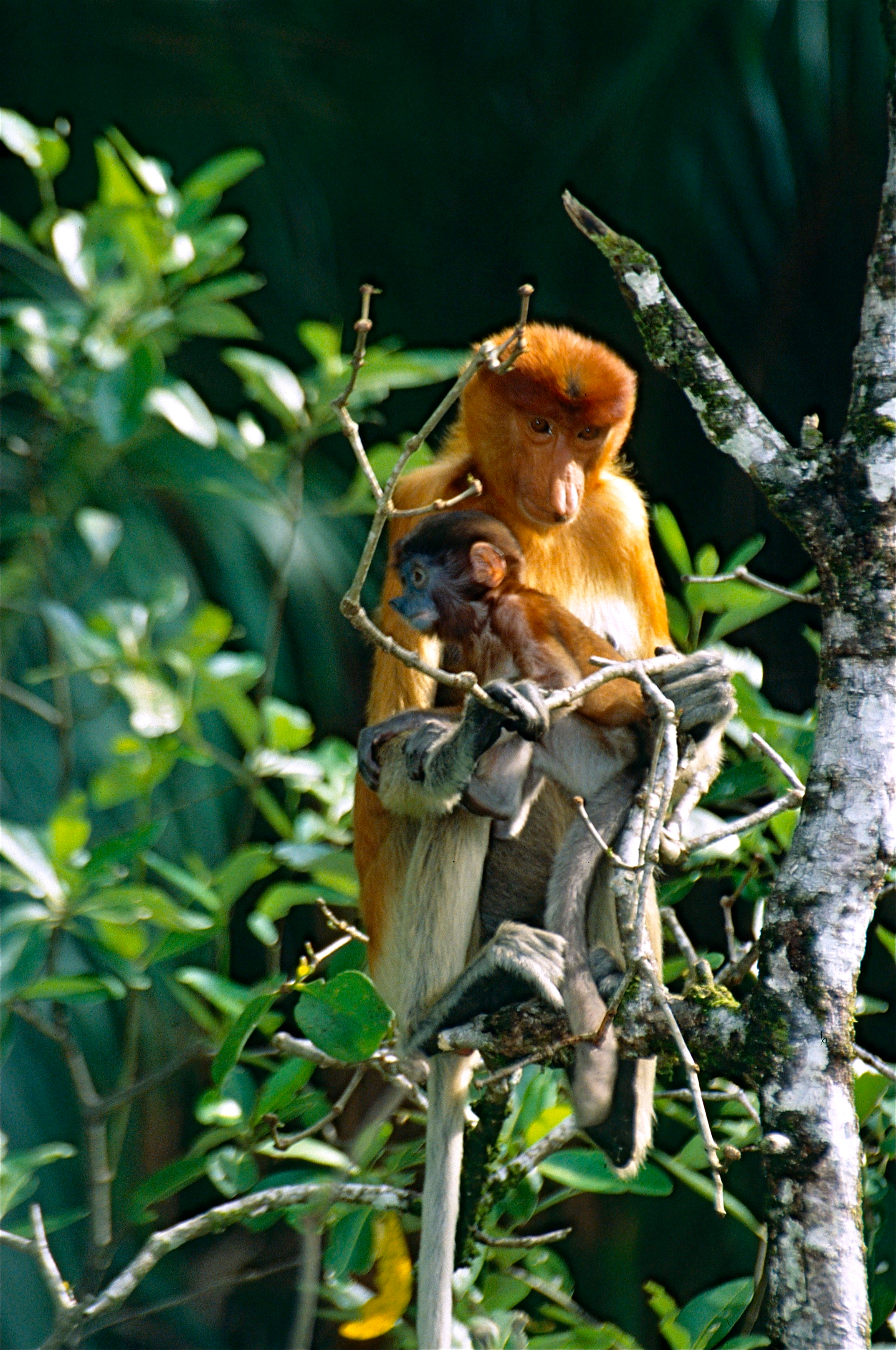 Bako NP, Sarawak, MALAYSIA Scanned slide from 2001